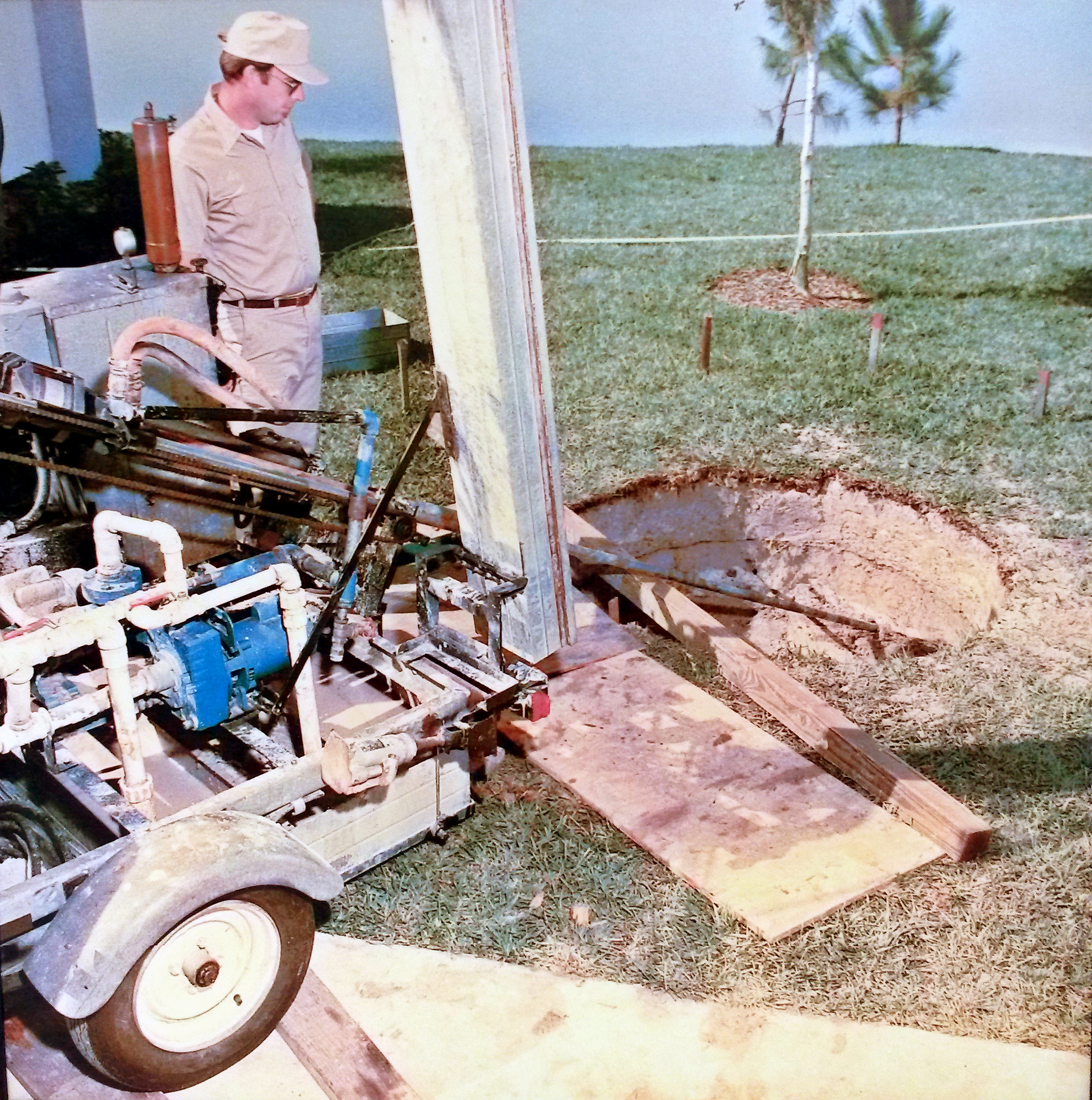 1980 DX project